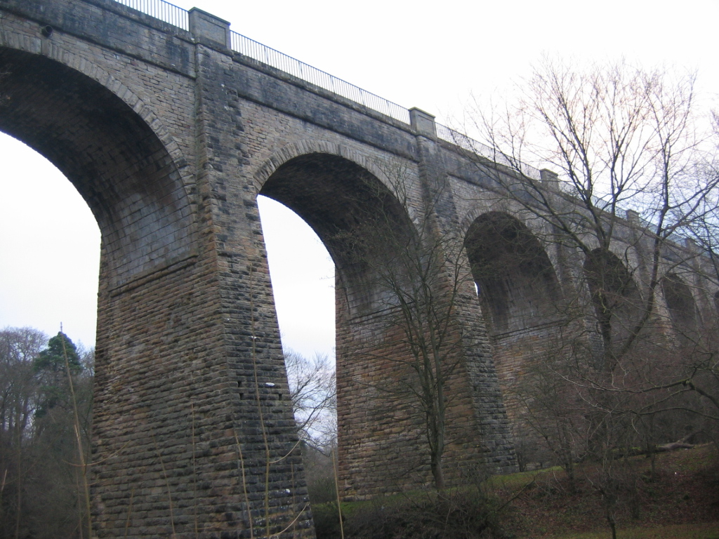 Avon Aqueduct, Union Canal, Falkirk, Scotland